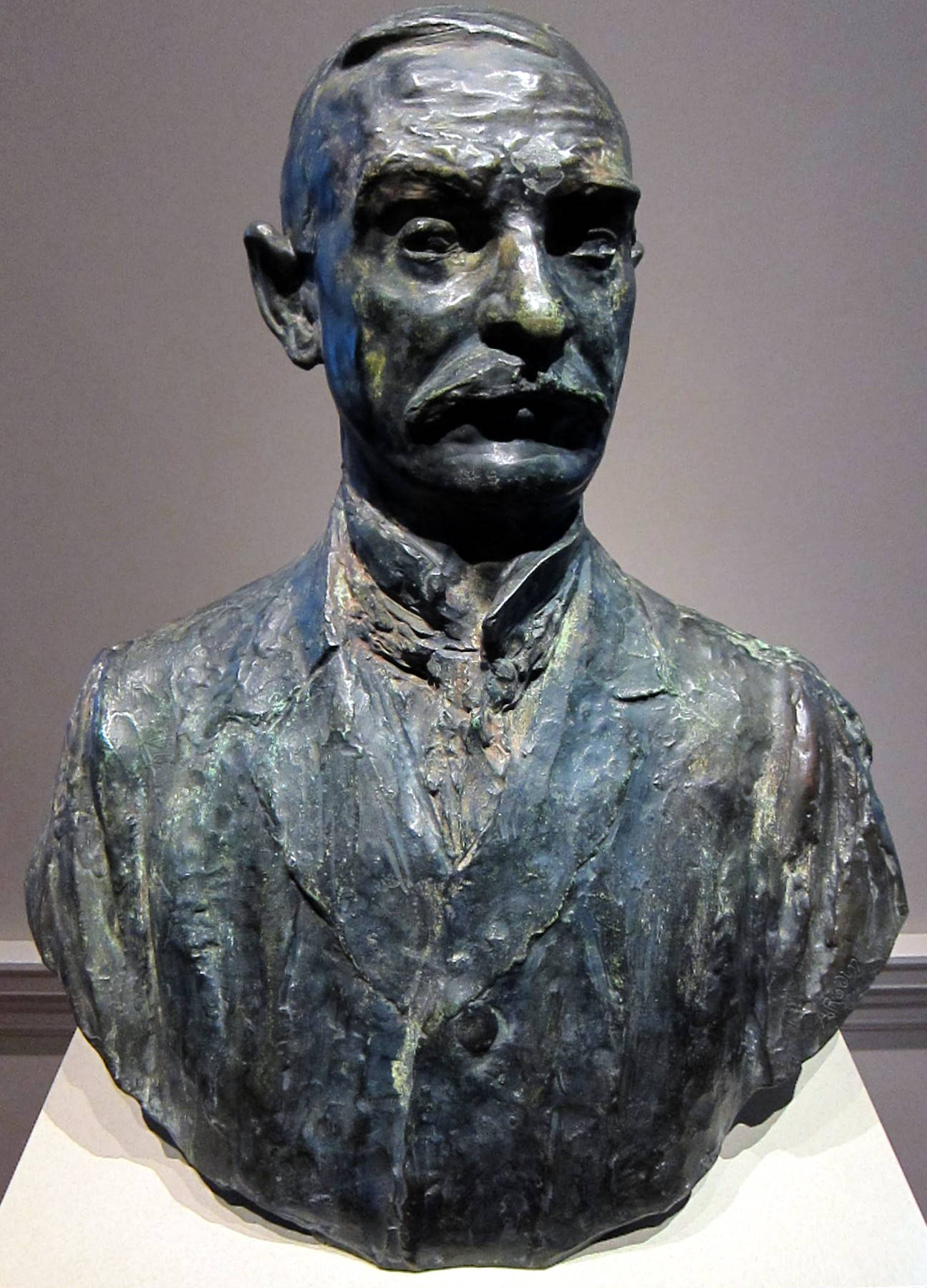 Thomas Fortune Ryan (1909–1910; Auguste Rodin) located in the National Gallery of Art's West Building in Washington, D.C.